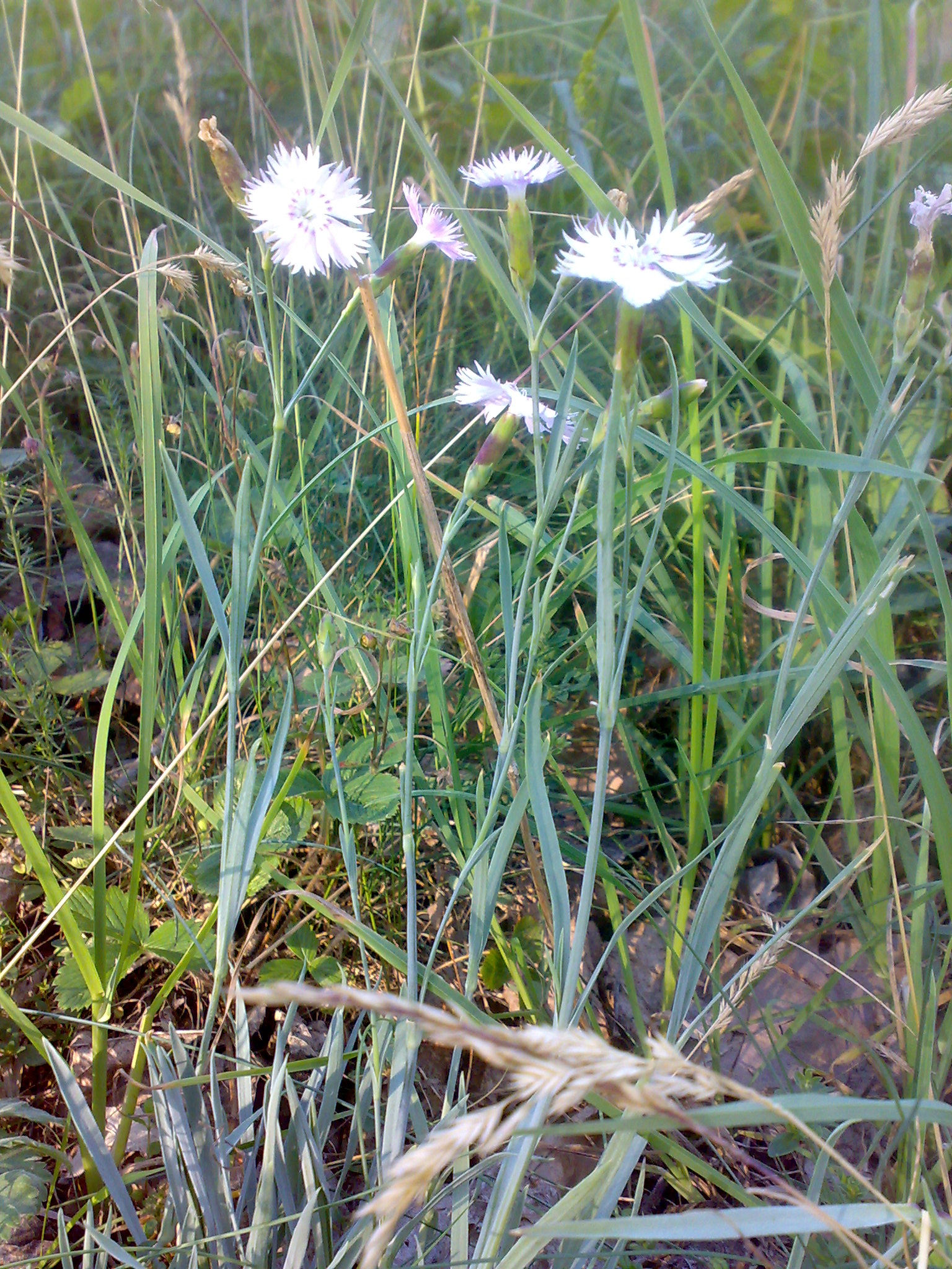 Dianthus arenarius, Asker, Norway